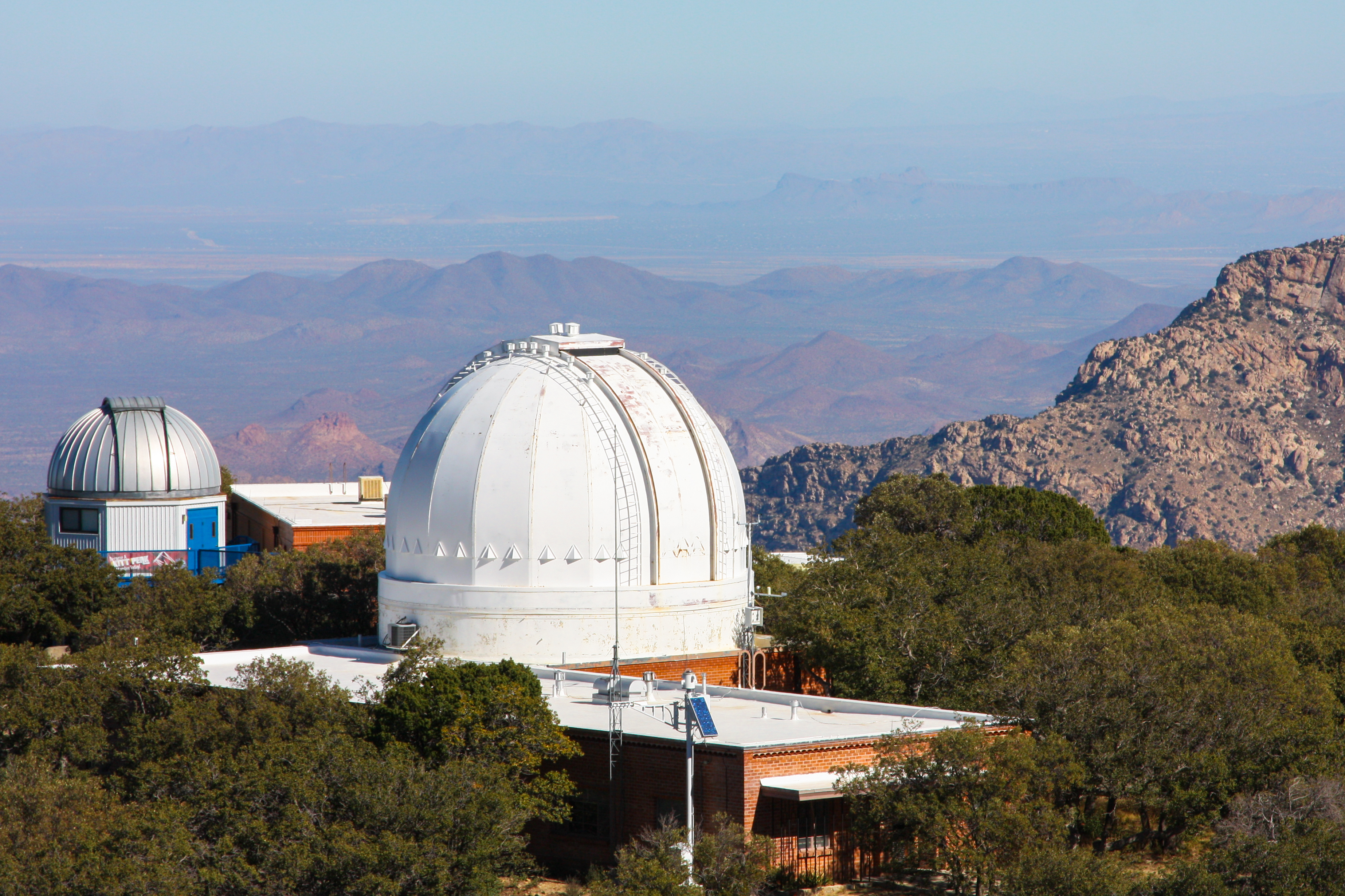 The 1.3m and 0.4m telescopes at Kitt Peak overlook the vast desert Southwest.